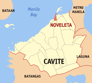 Map of Cavite Province, showing the location of Noveleta.